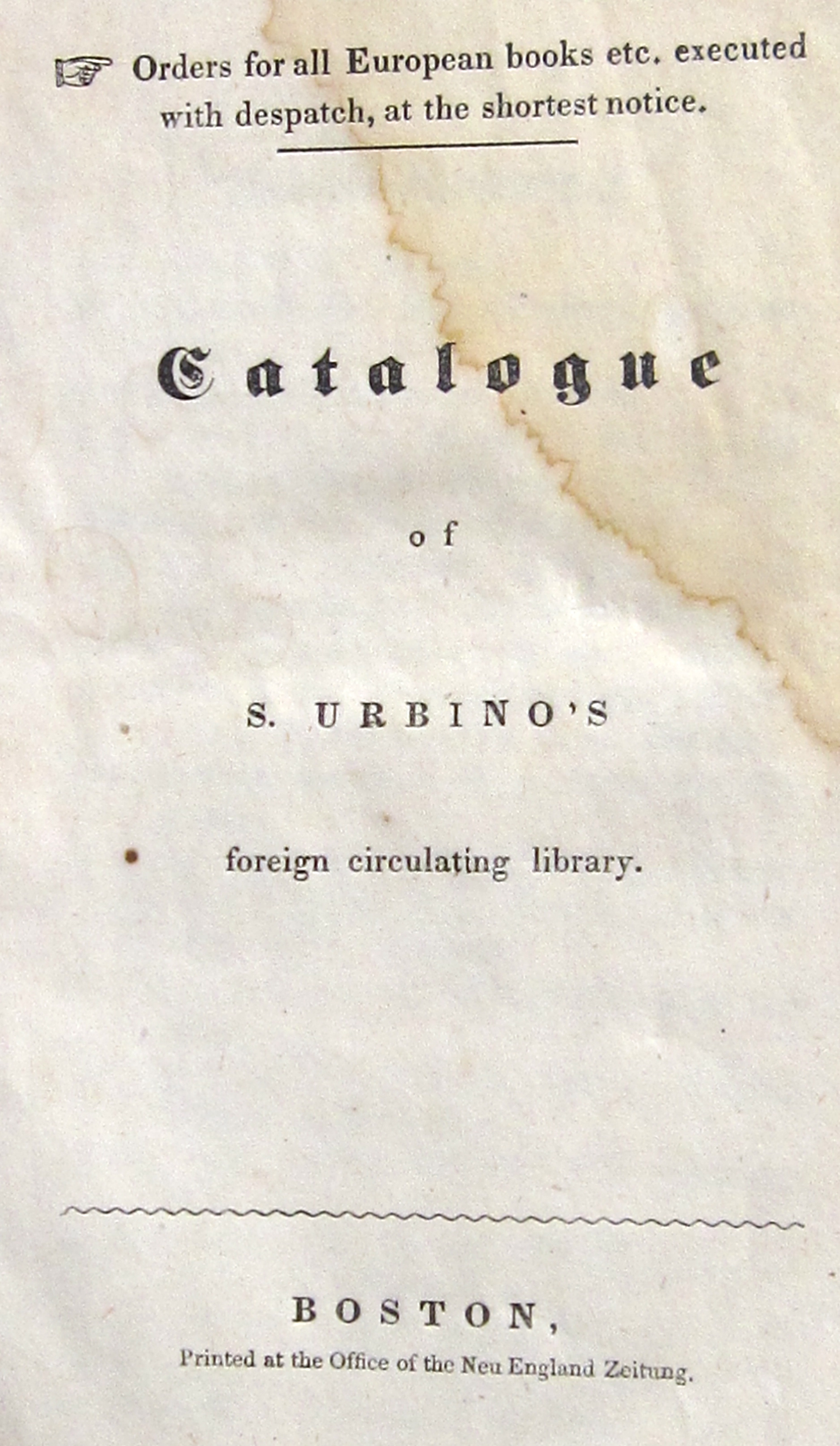 From: Catalogue of S. Urbino's foreign circulating library (Boston: printed at the office of the New England Zeitung)